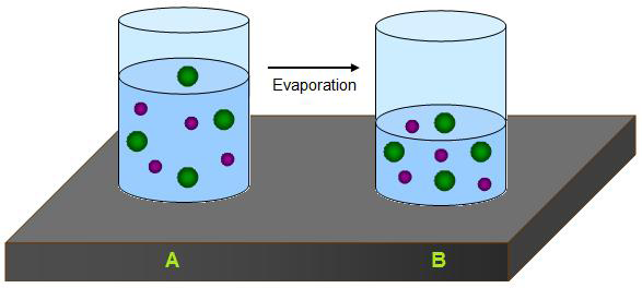 When the water in glass A evaporates, the dissolved mineral particles are left behind.